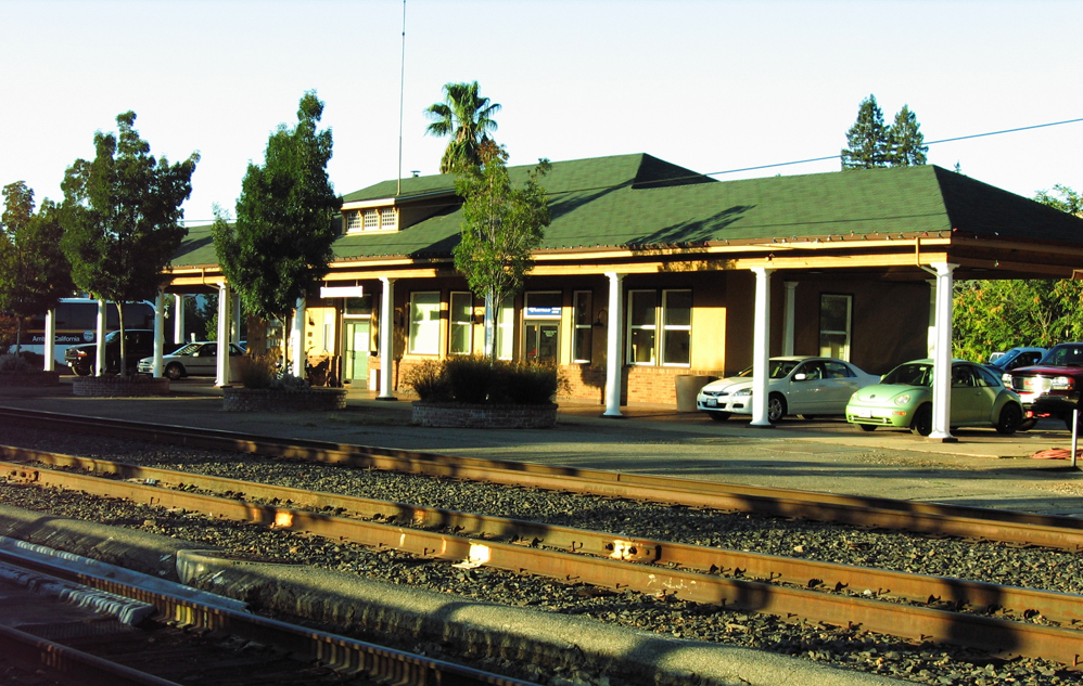 Trackside of Redding, California Amtrak station.